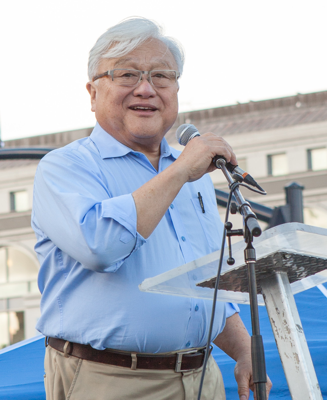 Former US congressperson Mike Honda speaks at a San Francisco protest of the U.S. immigration ban.